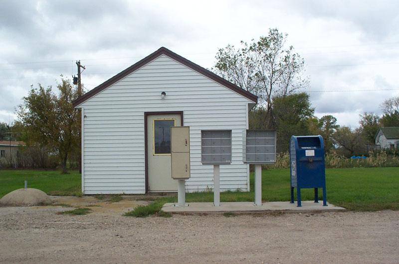 View of the Blanchard post office in North Dakota.